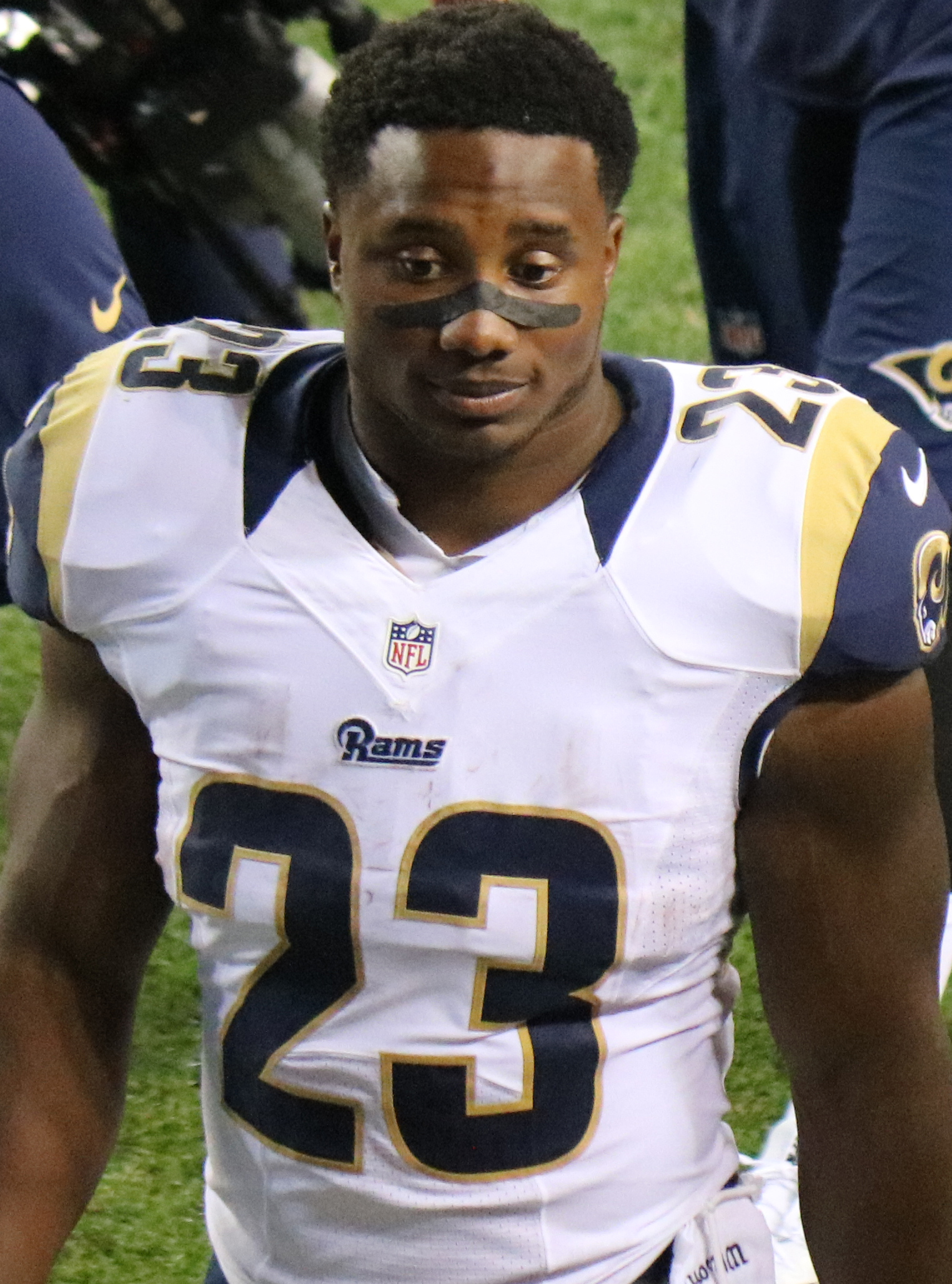 Benny Cunningham, a player on the National Football League.